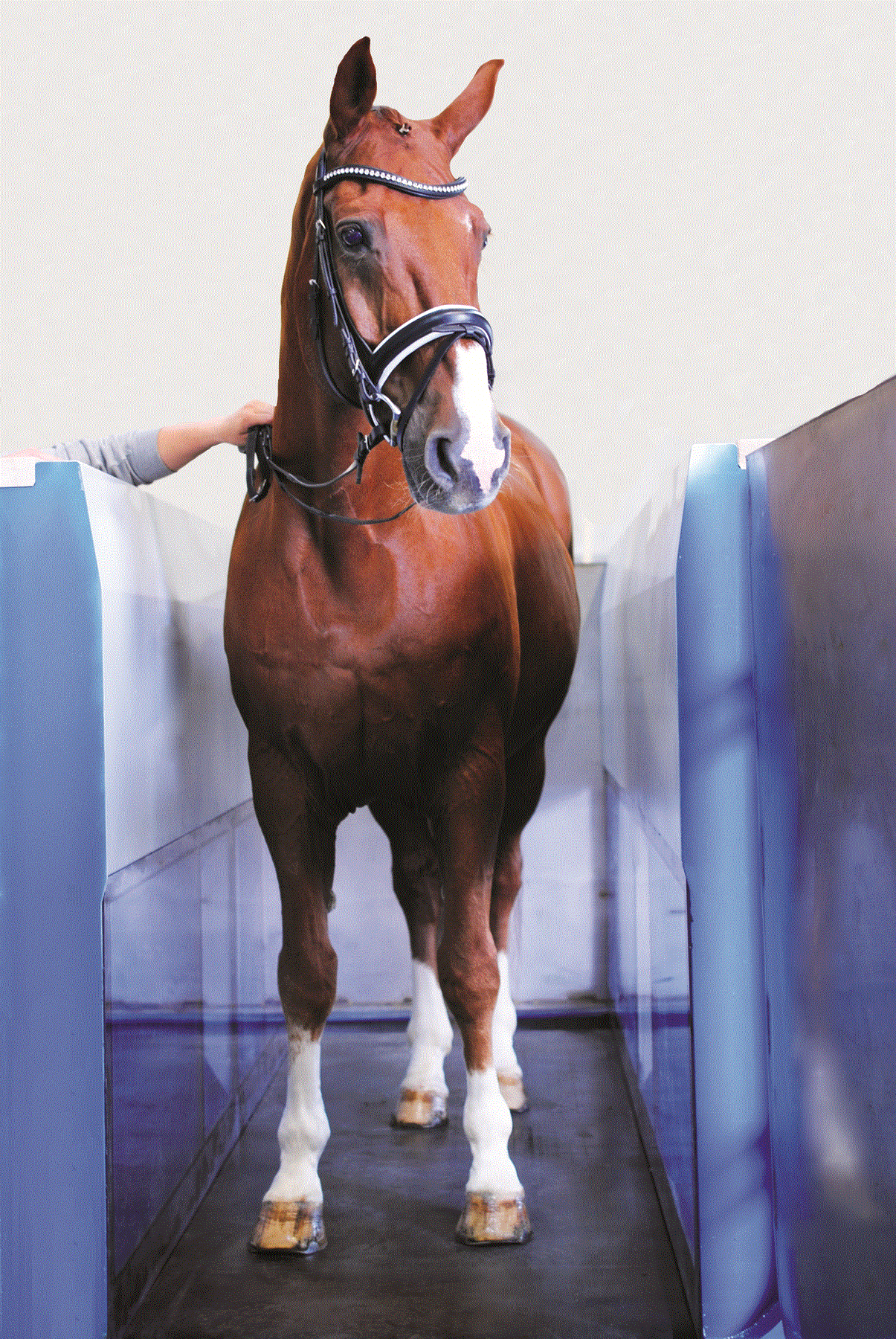 Hannoveraner-Horse in Sascotec-Aquatrainer